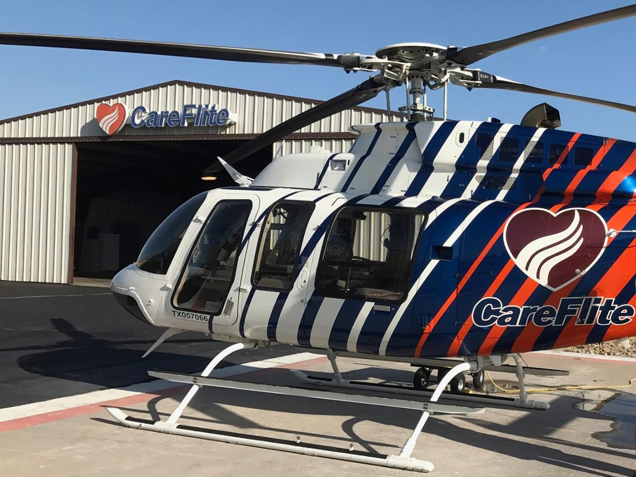 CareFlite Bell 407GX at Granbury Regional Airport.